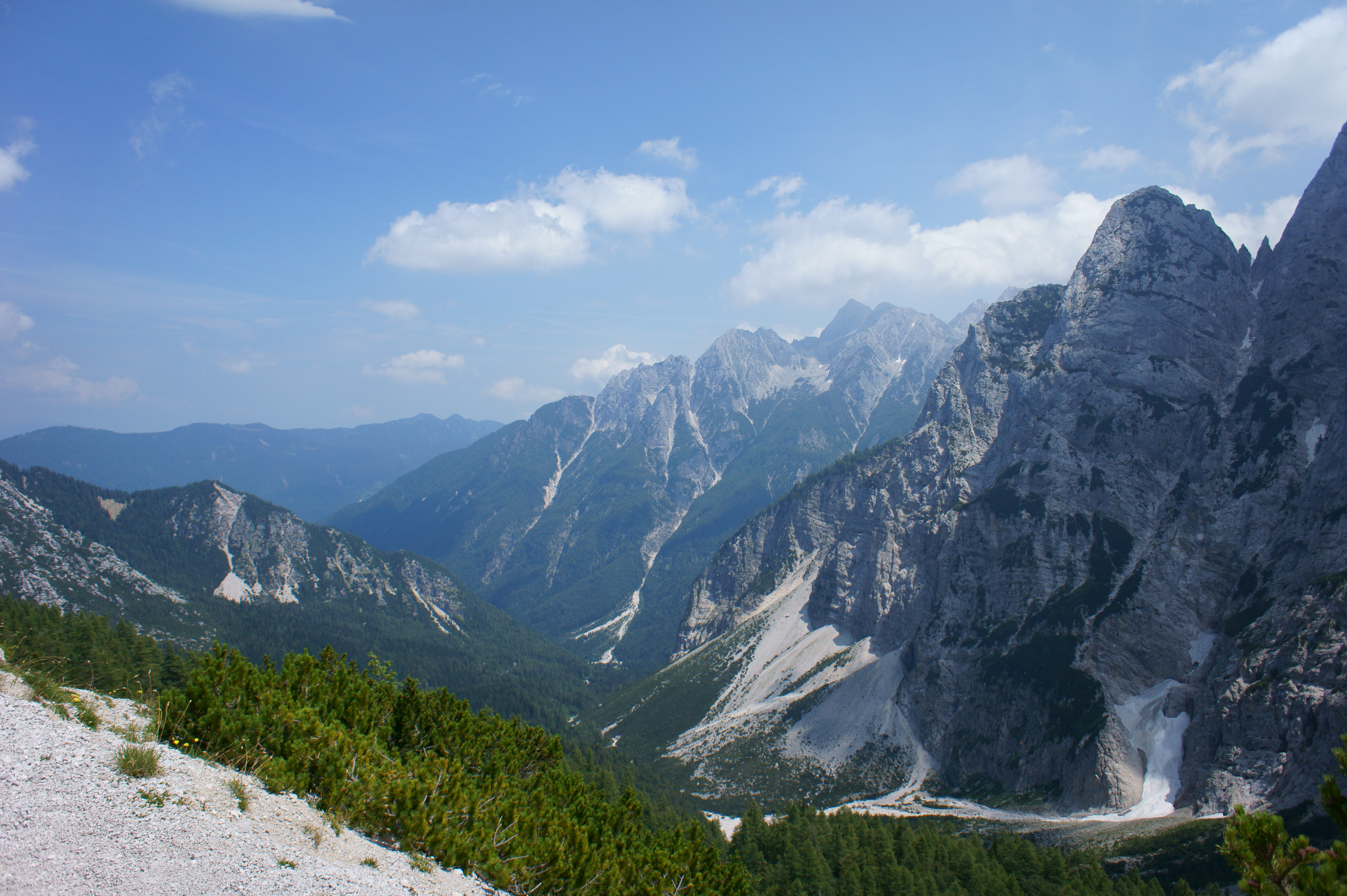 Julian Alps as seen from Vršič.